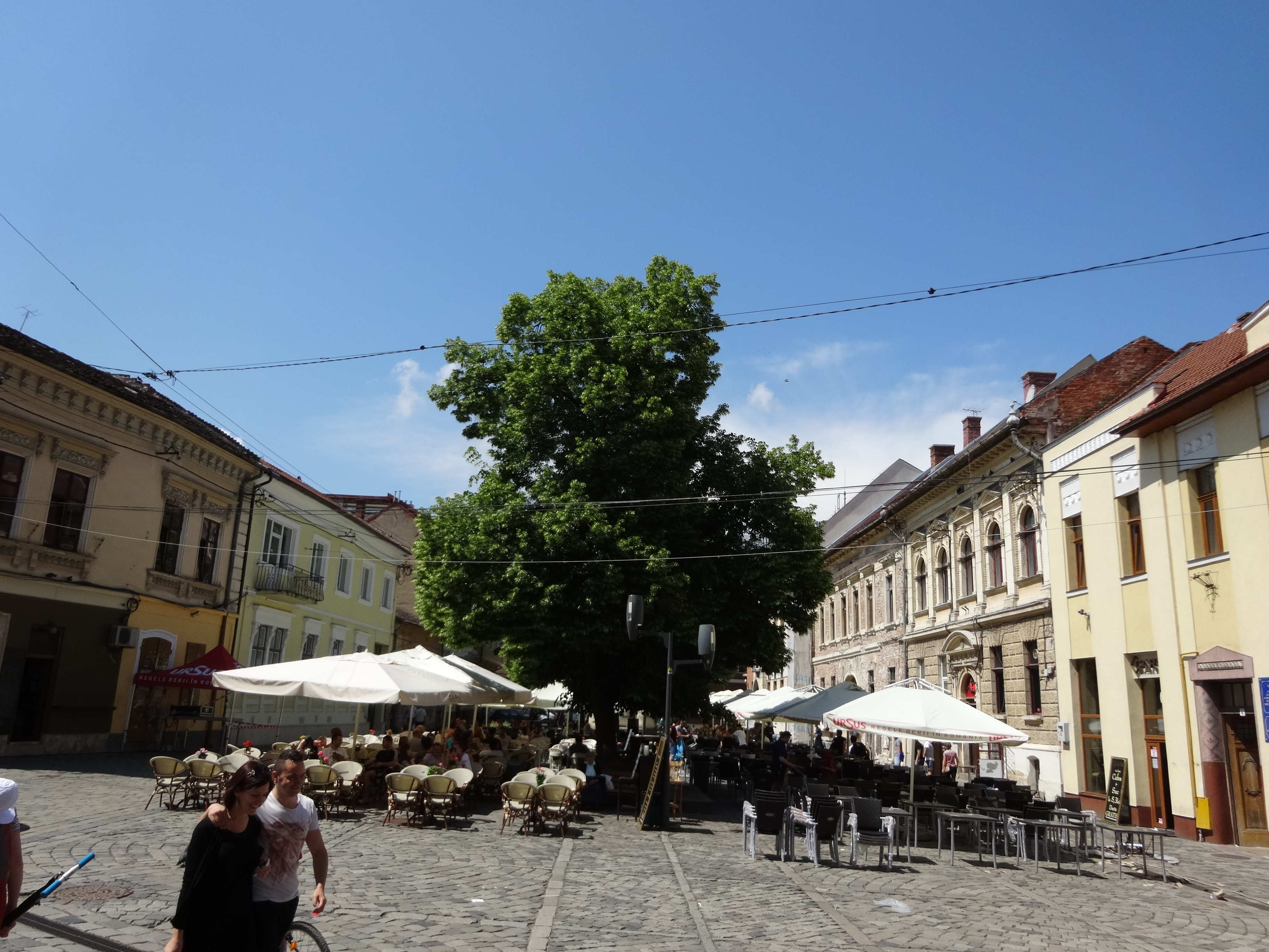 Museum place